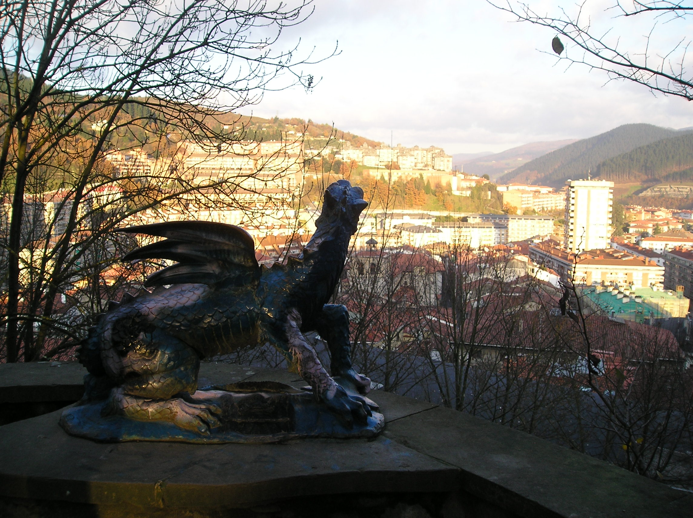 Arrasate dragon, in the park of Santa Barbara